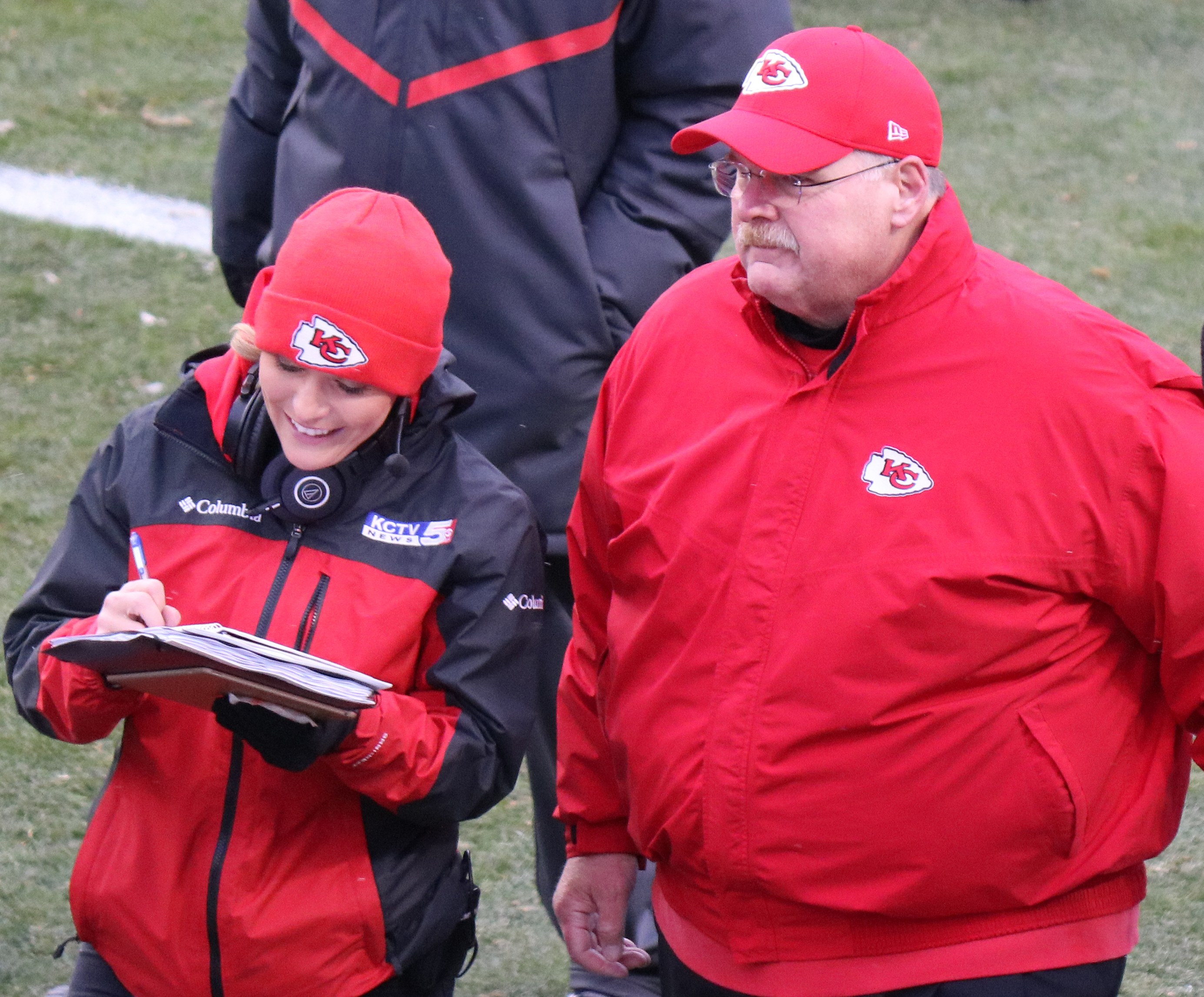 Andy Reid, coach of the Kansas City Chiefs American football team, being interviewed by KCTV5's sideline reporter Dani Welniak in Denver, Colorado, on December 31, 2017, at a game between the Chiefs and the Denver Broncos.